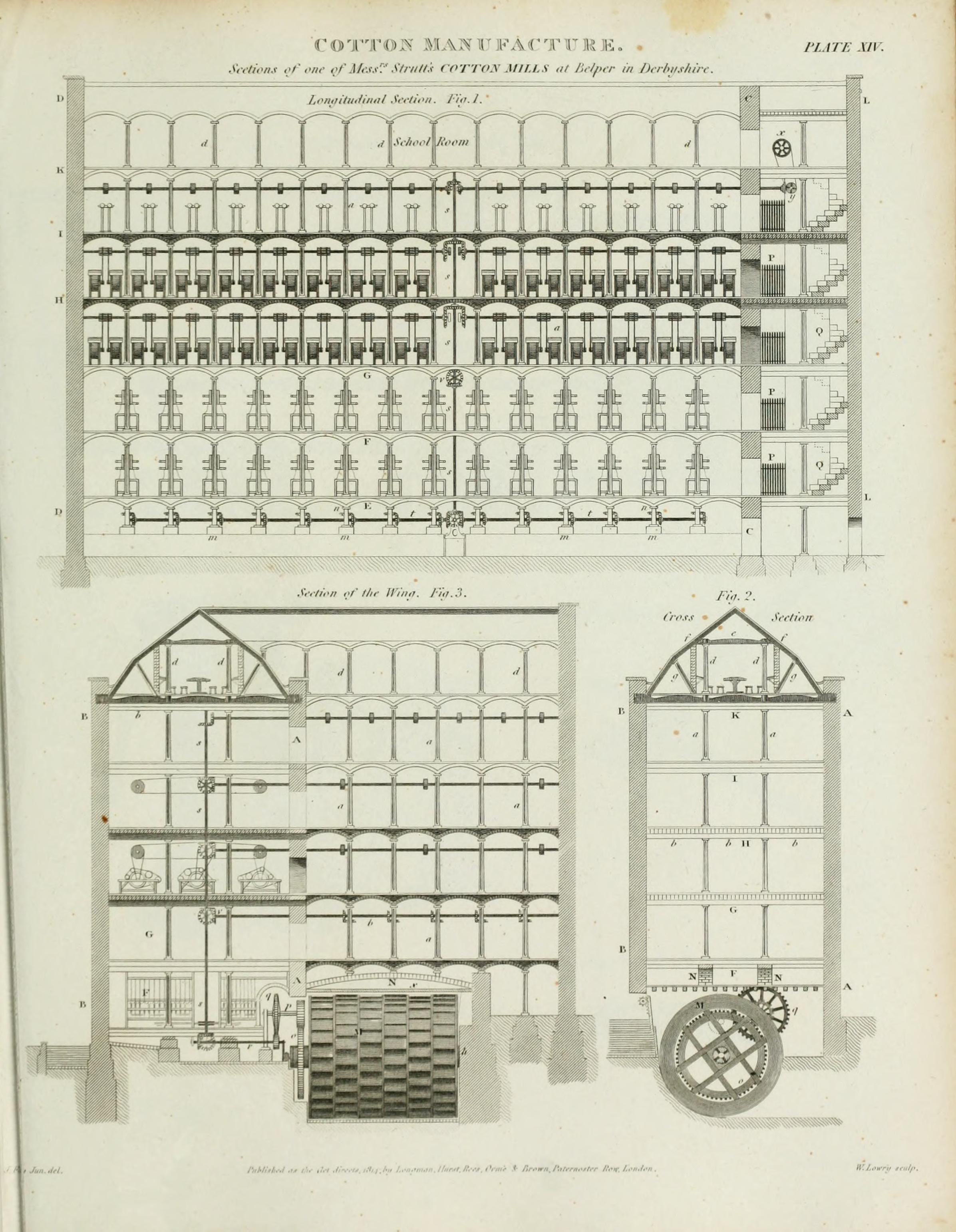 Jedediah Strutt, North Mill at Belper, Derbyshire. A stylisted diagram showing the construction, waterwheel and line shafts